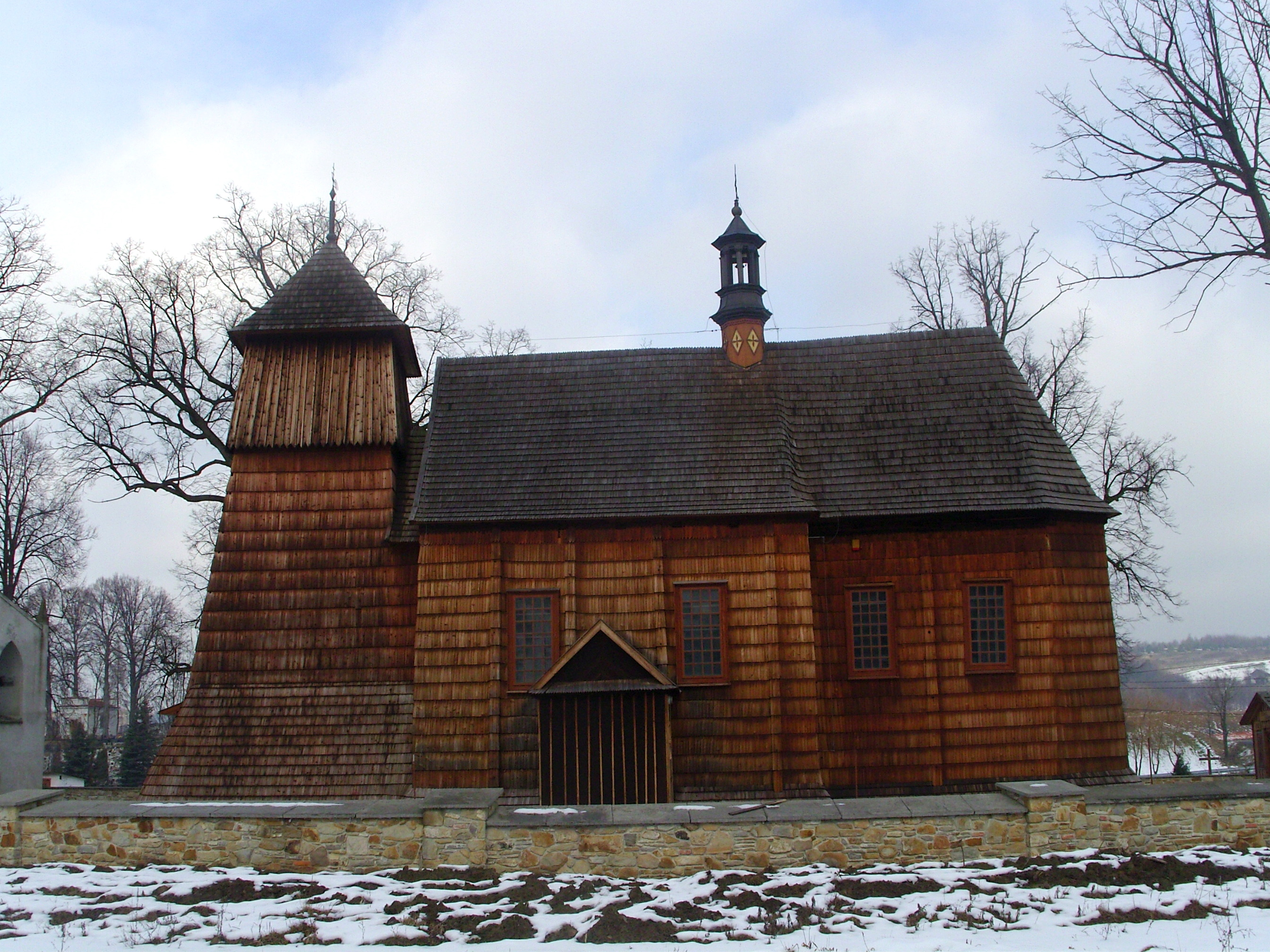 Saint Catherine's Church in Gogołów, Subcarpathian Voivodeship, Poland, built in 1672.